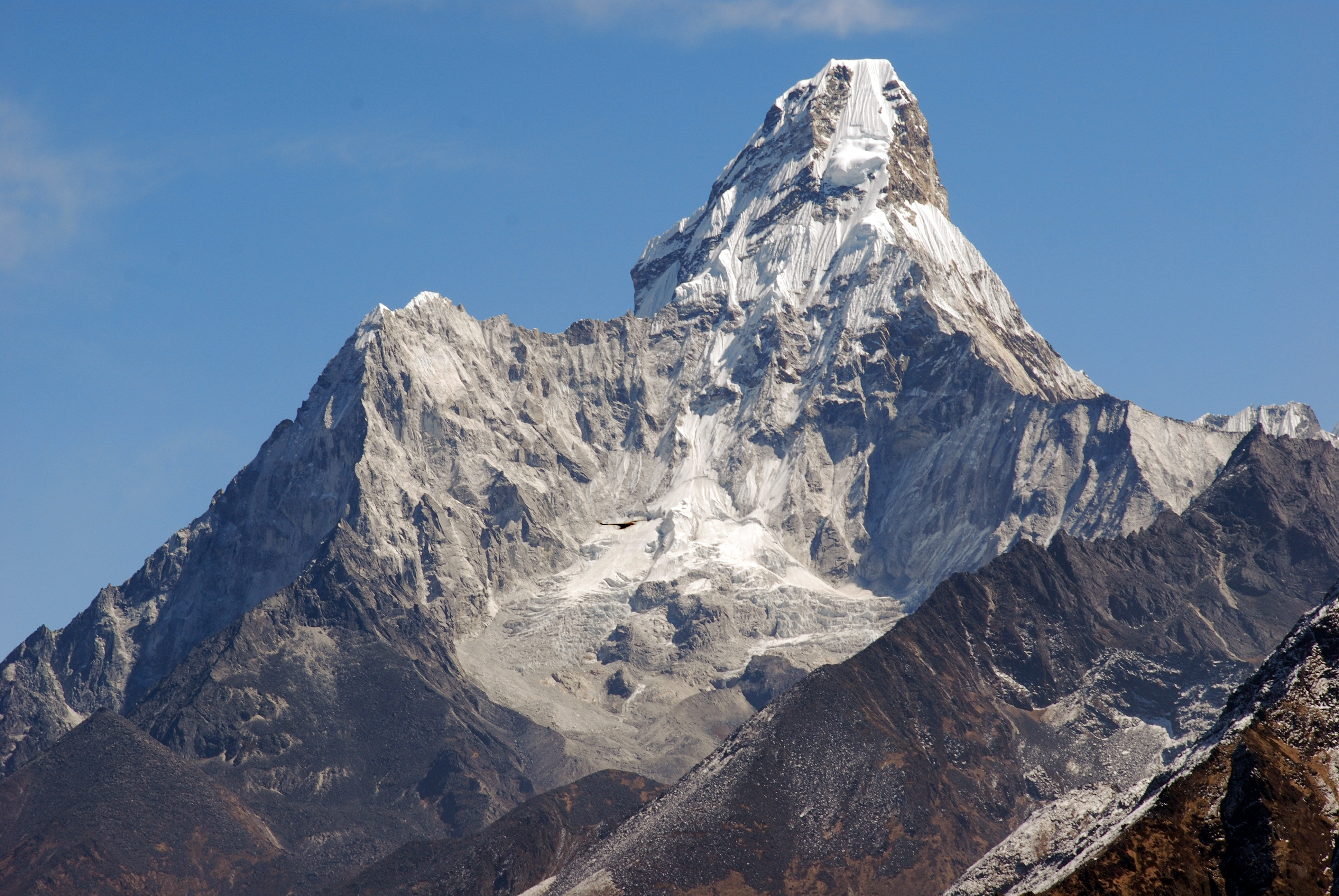 Ama Dablam, Khumbu Himal, Nepal. 6,856 m (22,493 ft)